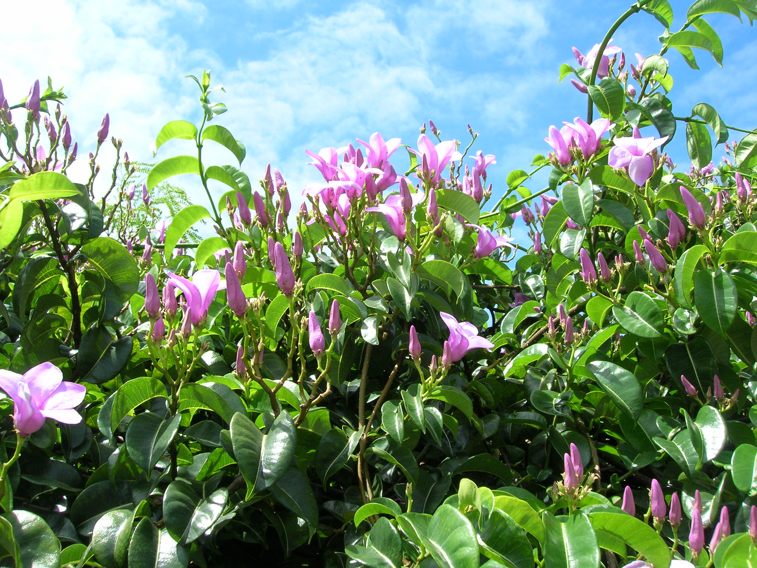 Cryptostegia madagascariensis (flowers). Location: Molokai, Wavecrest